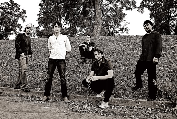 The Alice Rose in East Austin, July, 2008.